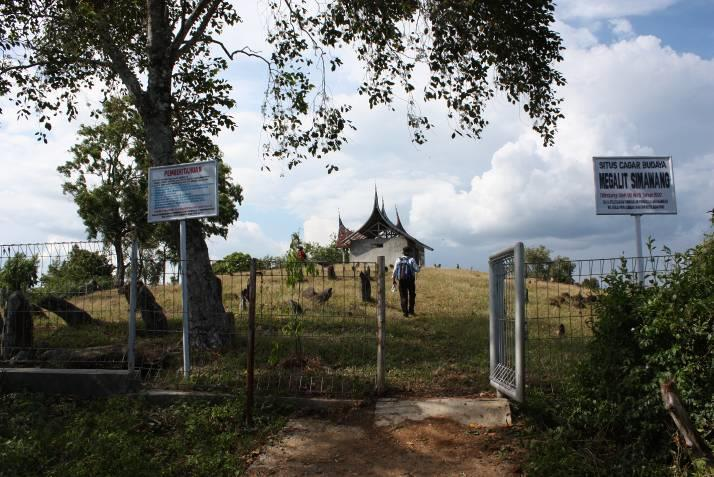 Megalit Simawang